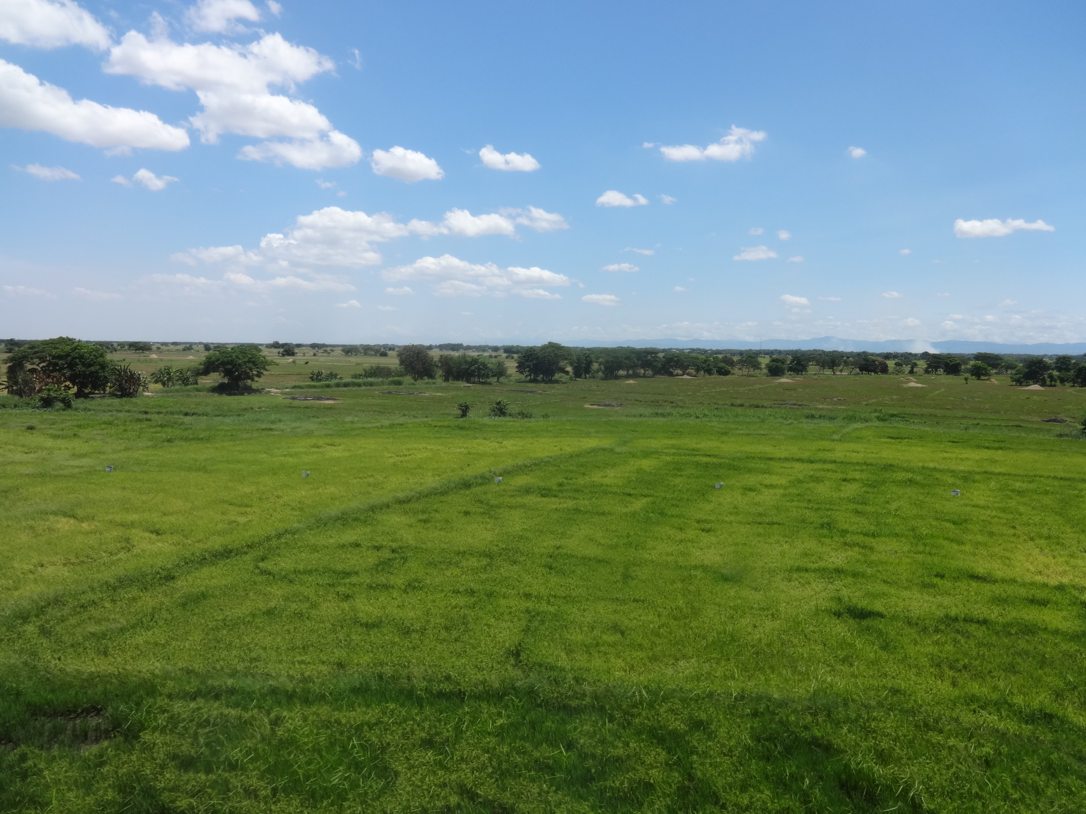 Candaba swamp as seen from NLEX Candaba Viaduct in Pulilan, Bulacan